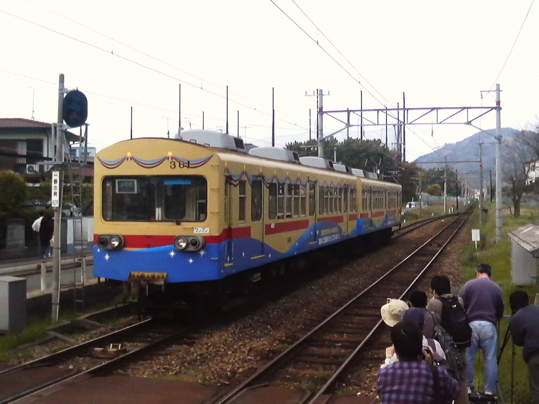 Nishitetsu series 300 EMU painted for commemorating the partial closure of Miyajidake Line (now Kaizuka Line)